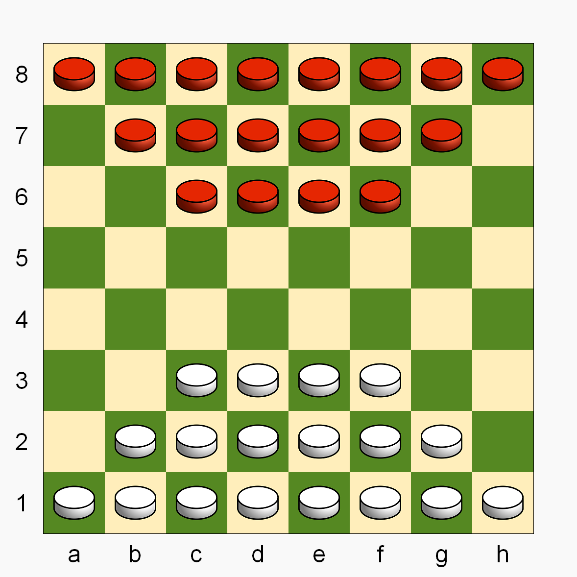 Dameo starting position. Using the great checker icons of User:Stellmach (svg'd by User:Stannered); everything here done in MS PAINT.